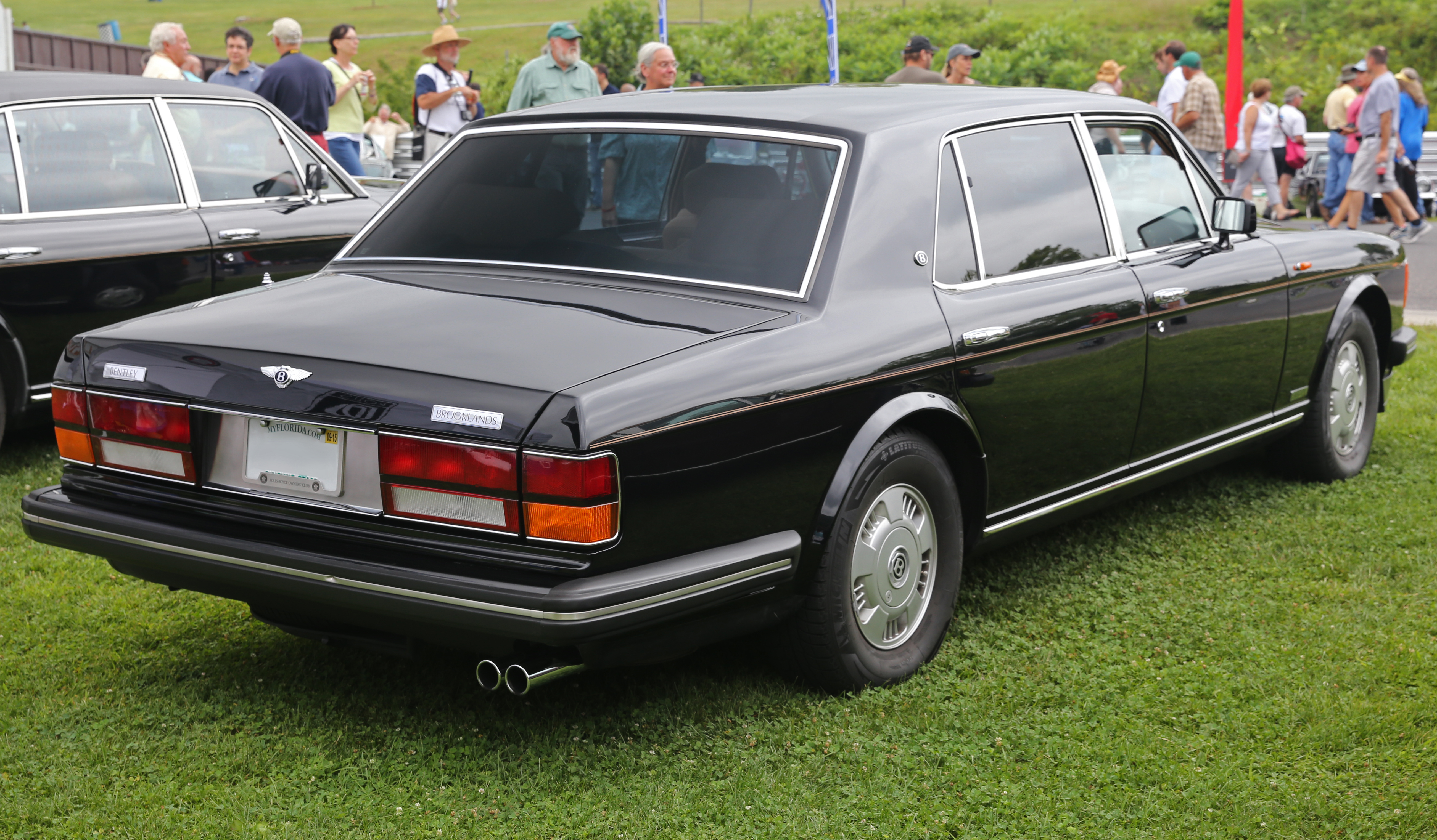 A 1995 Bentley Brooklands LWB at the 2014 Lime Rock Concours d'Élegance.